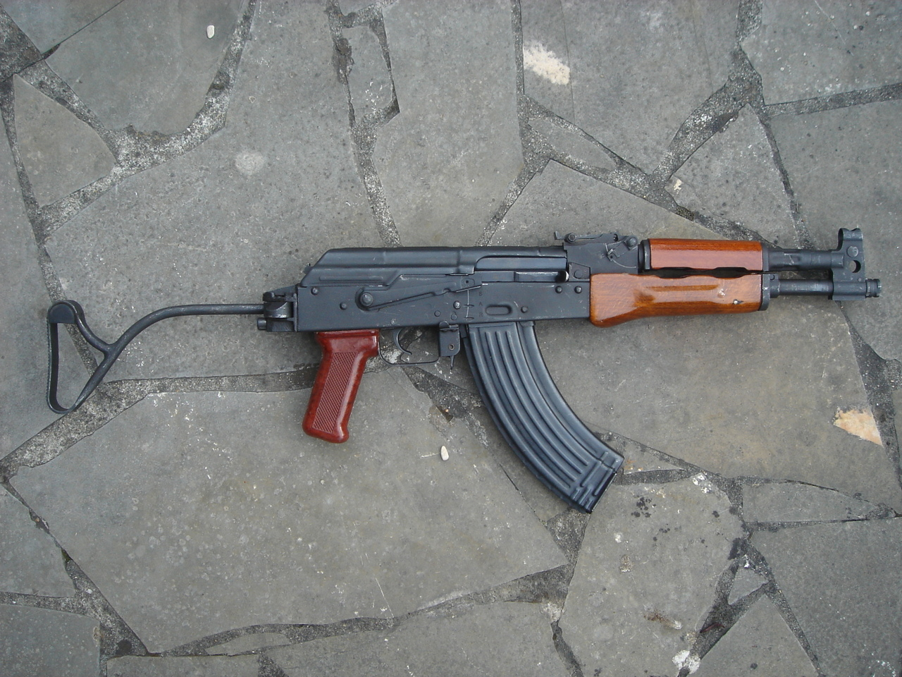 DCB Shooting Romanian short AK rifle